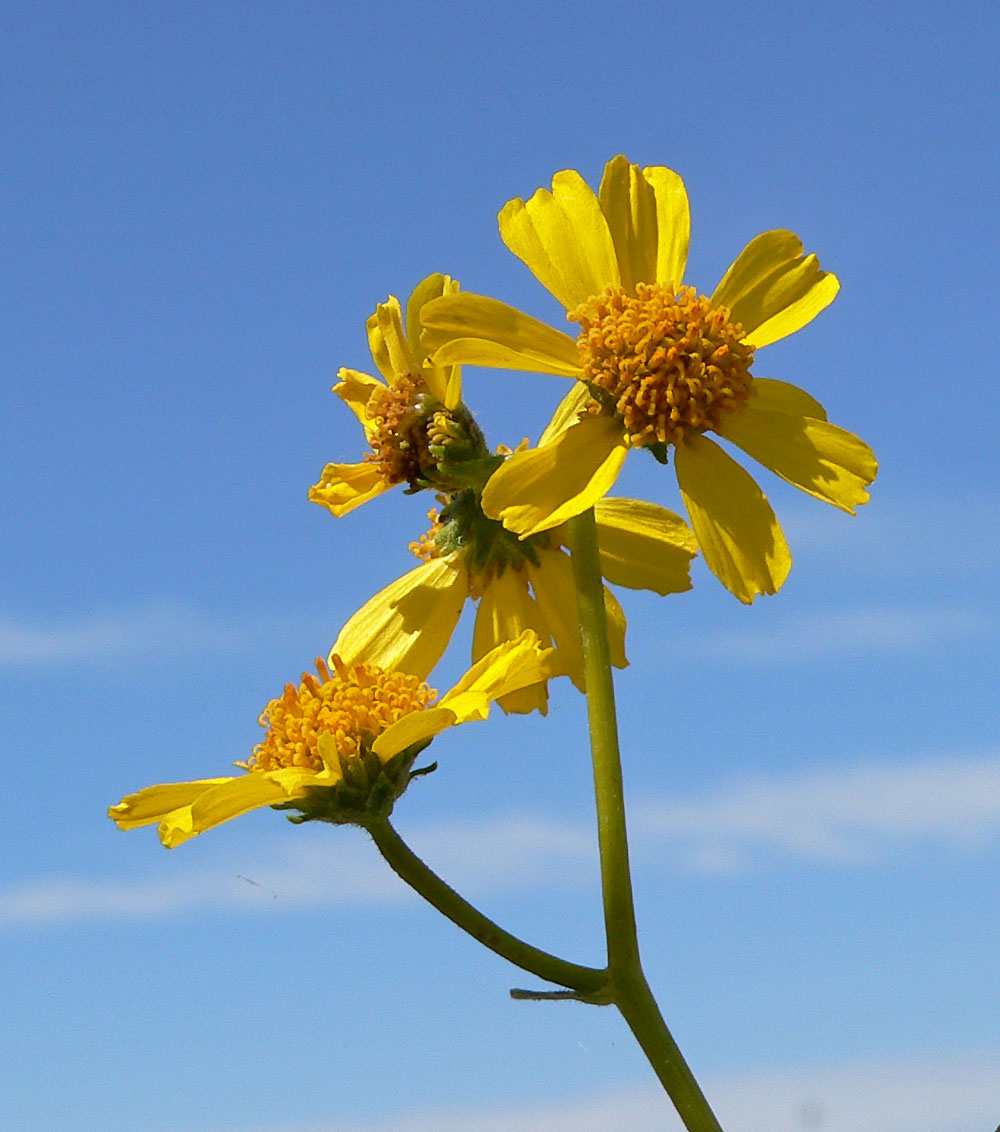 Encelia farinosa at Callville Bay Marina, Lake Mead, southern Nevada